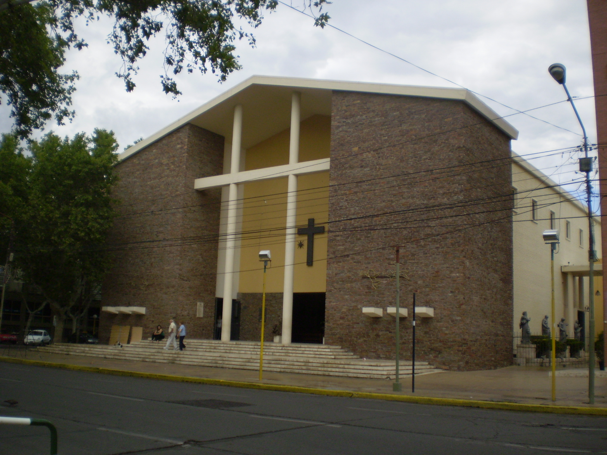 Cathedral of San Juan Cit, Argentina